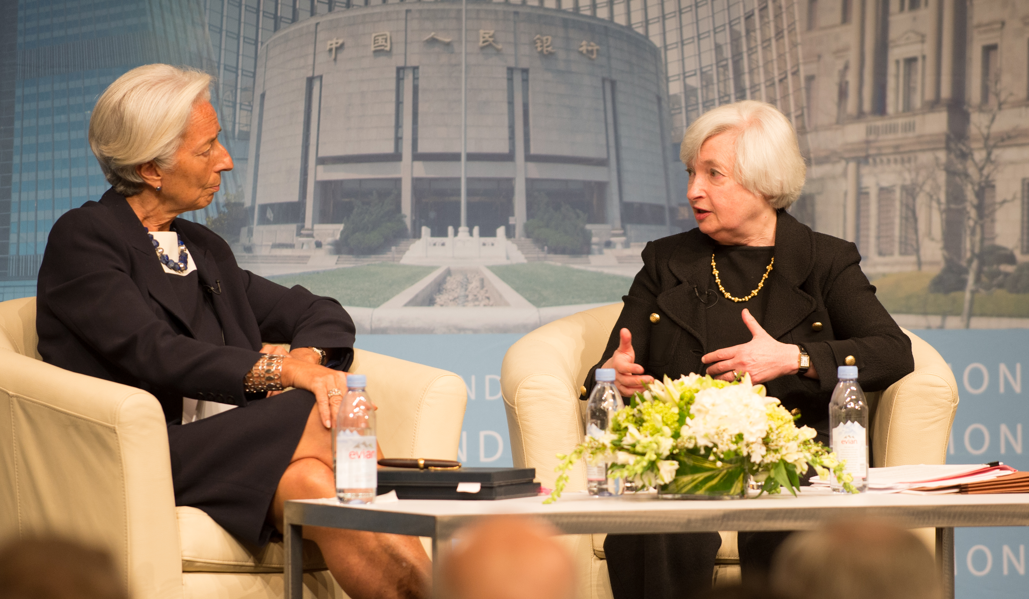 Chair Yellen and International Monetary Fund Managing Director Christine Lagarde speak and answer questions at the Inaugural Michel Camdessus Central Banking Lecture at International Monetary Fund headquarters on July 2, 2014. Read speech